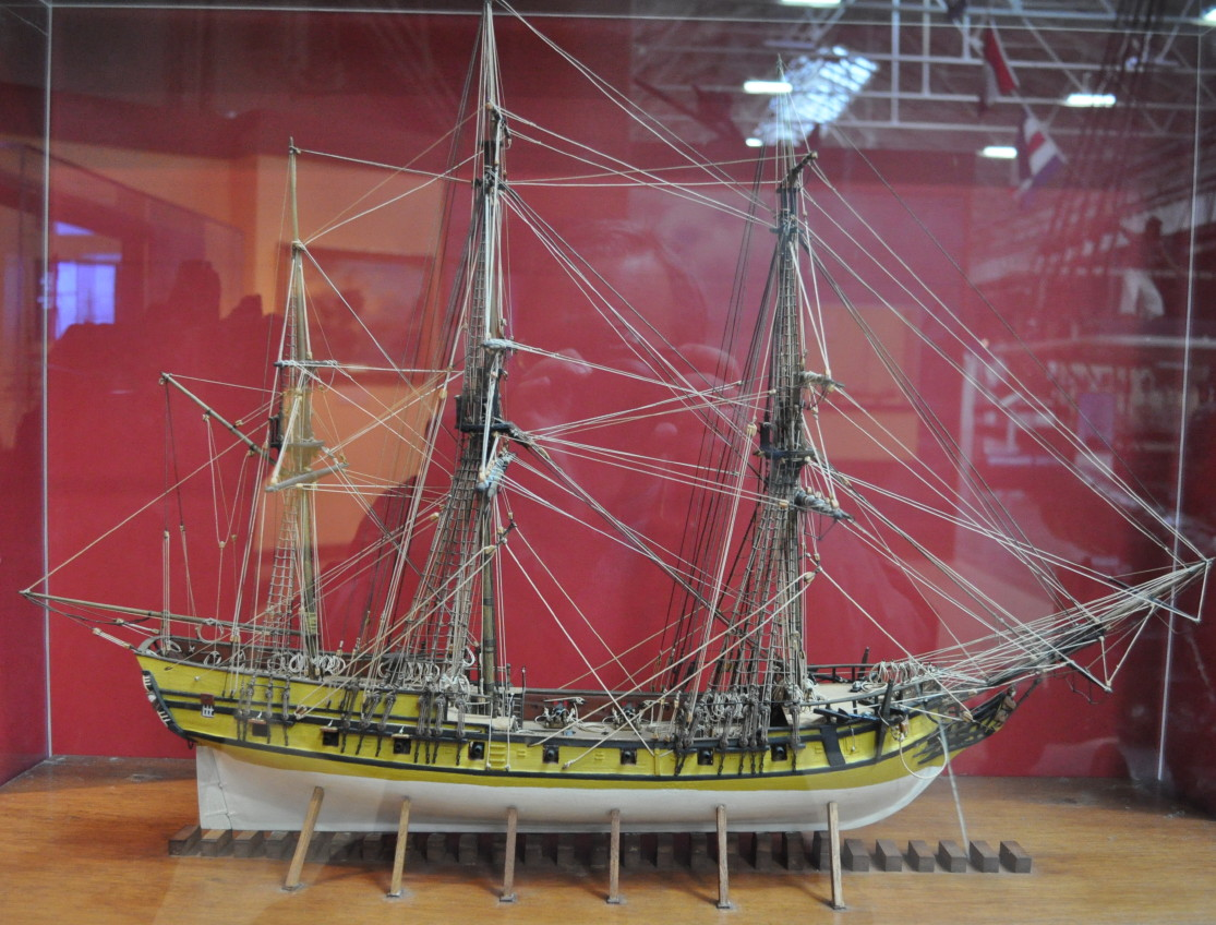 Model of the American privateer Rattlesnake (abt 1781), captured that year by HMS Assurance, at the U.S. Navy Museum